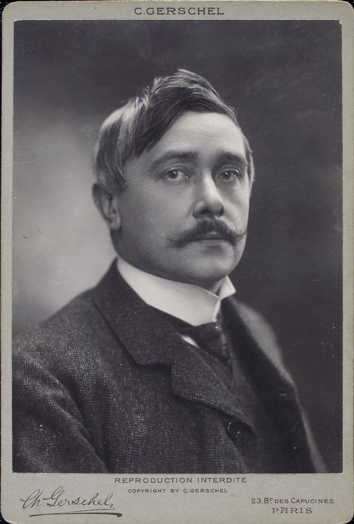 French writer Maurice Maeterlinck